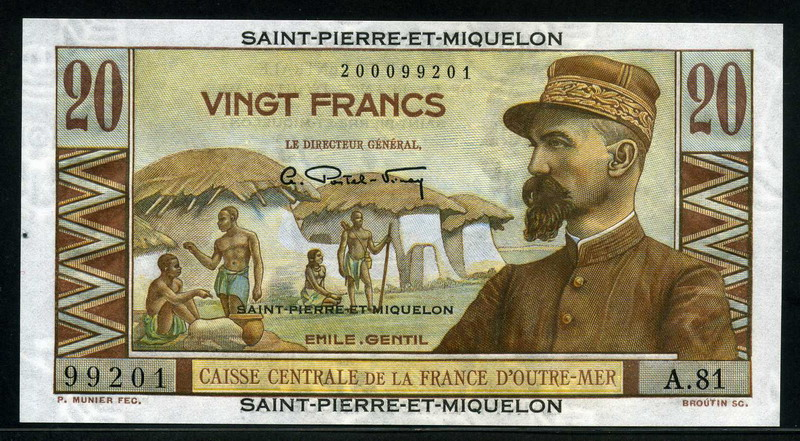 Saint Pierre and Miquelon 20 Francs banknote of 1950-1960, Émile Gentil.